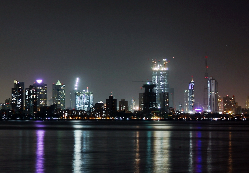 Mumbai skyline, India.